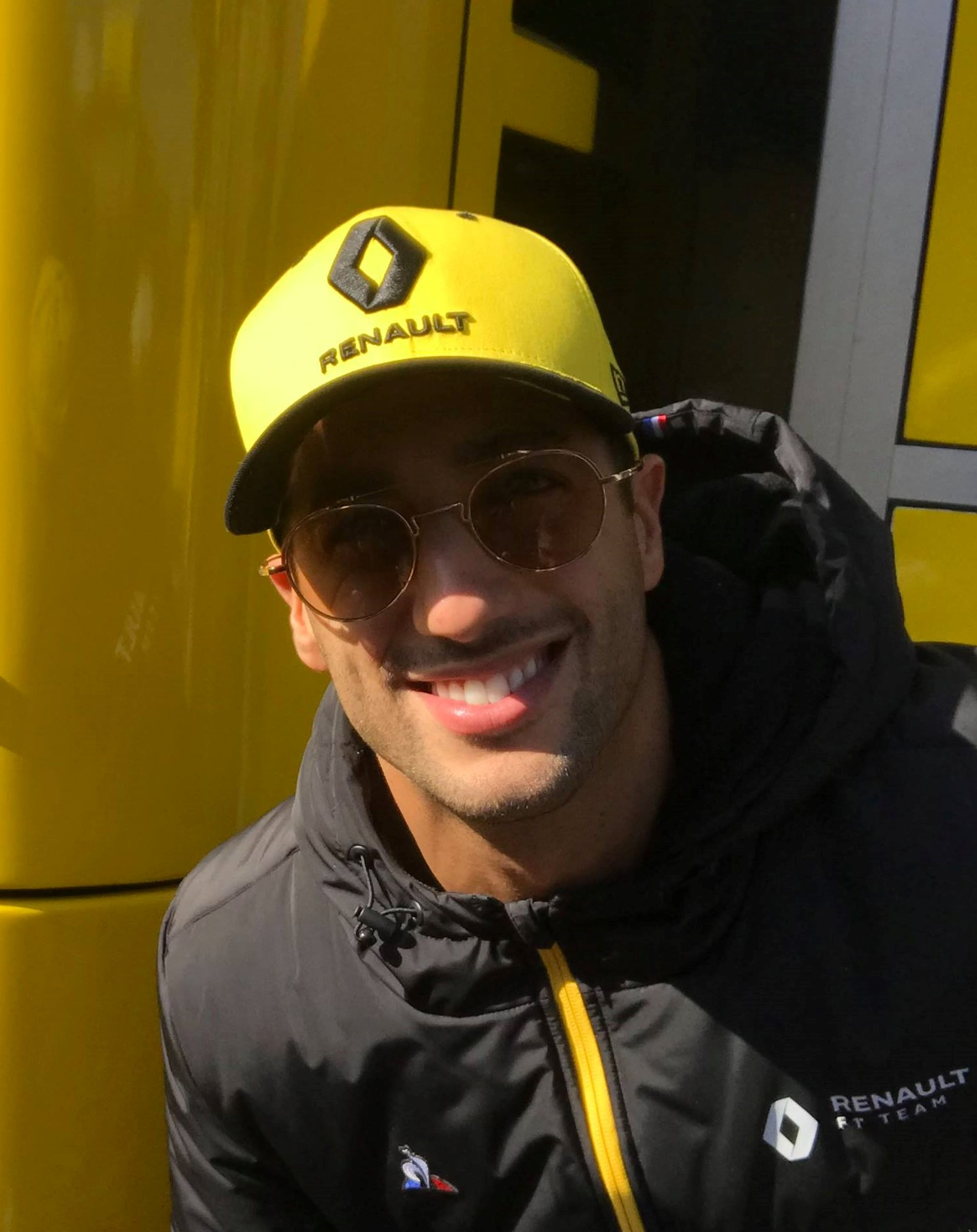 2019 Formula One tests Barcelona, Ricciardo.